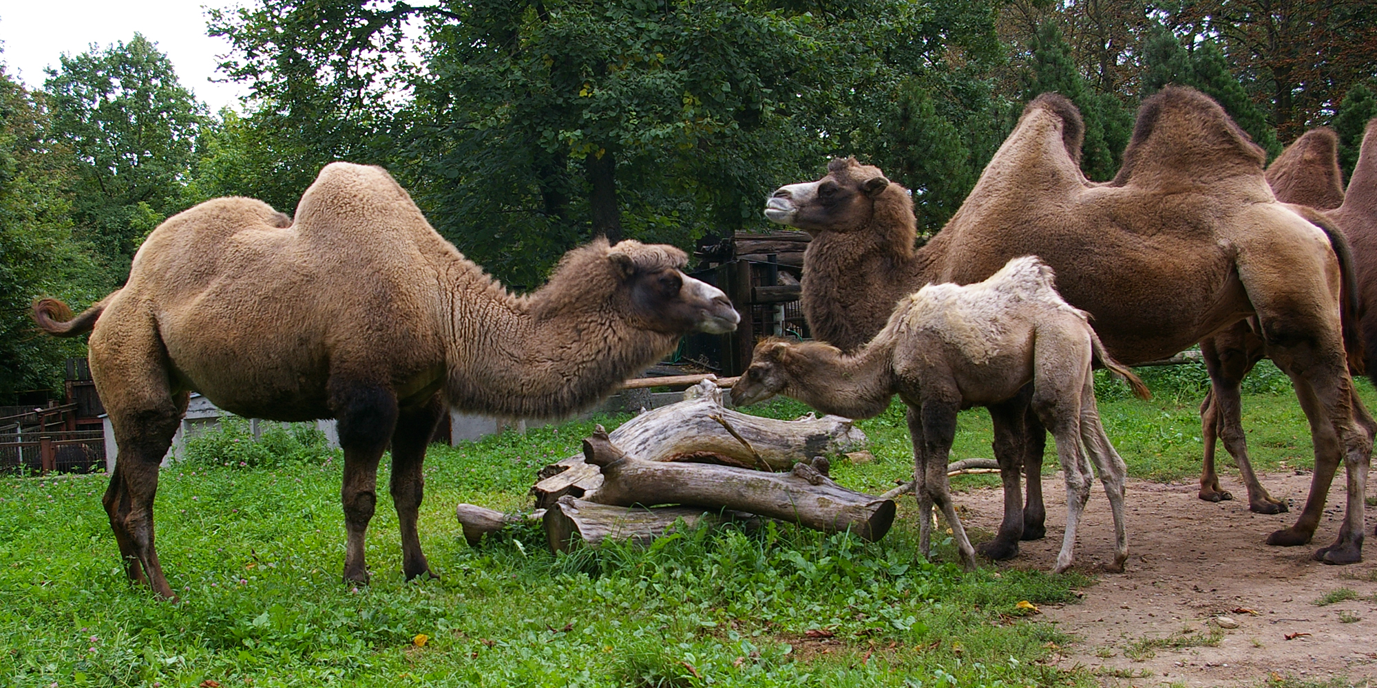 Lithuanian Zoological Gardens